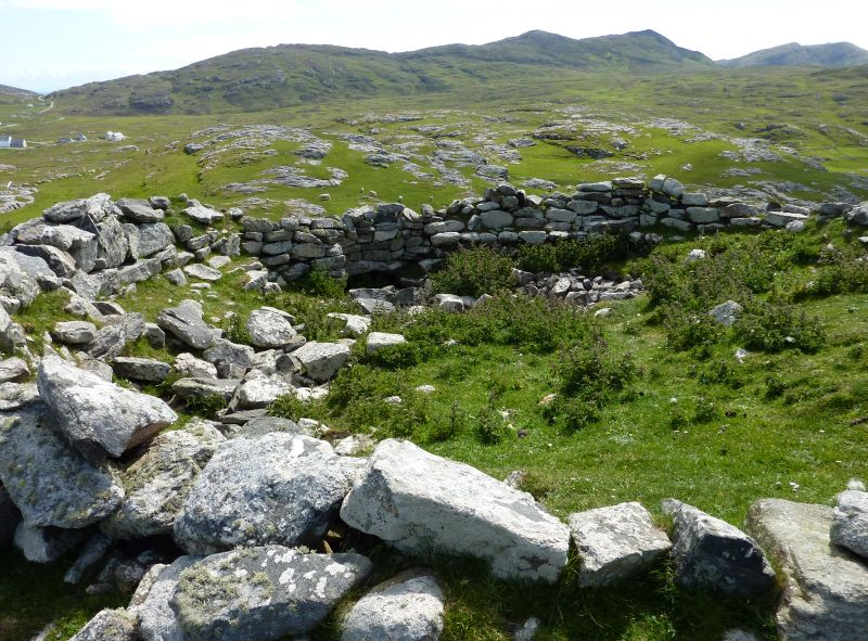 Dun Cuier, a broch on Barra, Outer Hebrides, Scotland